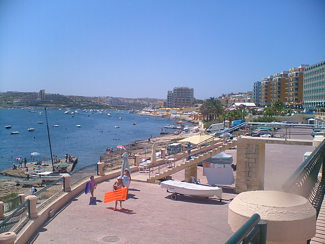 Qawra seafront